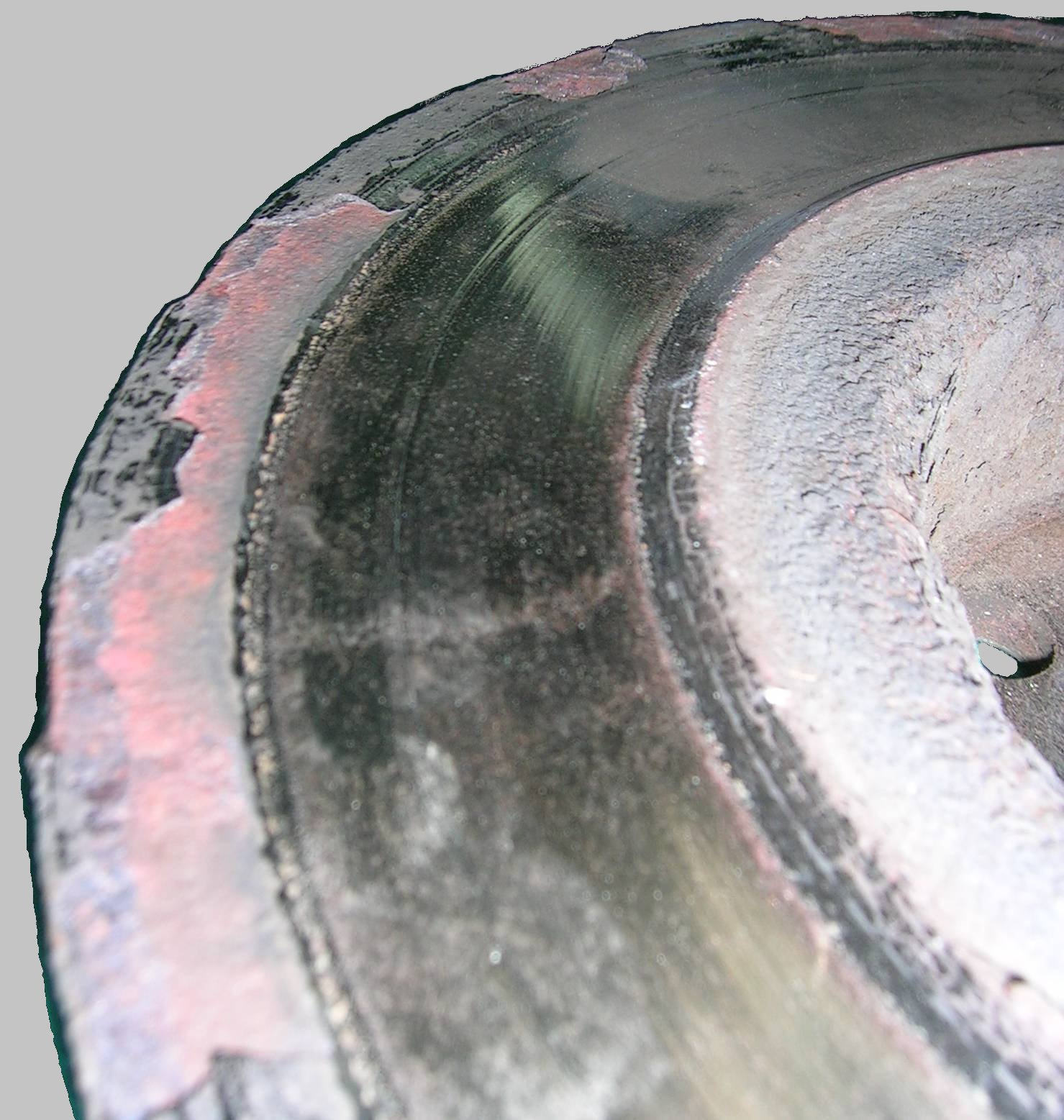 Worn-out rotor